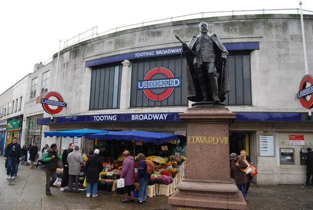 Statue of Edward VII outside Tooting Broadway Underground Station